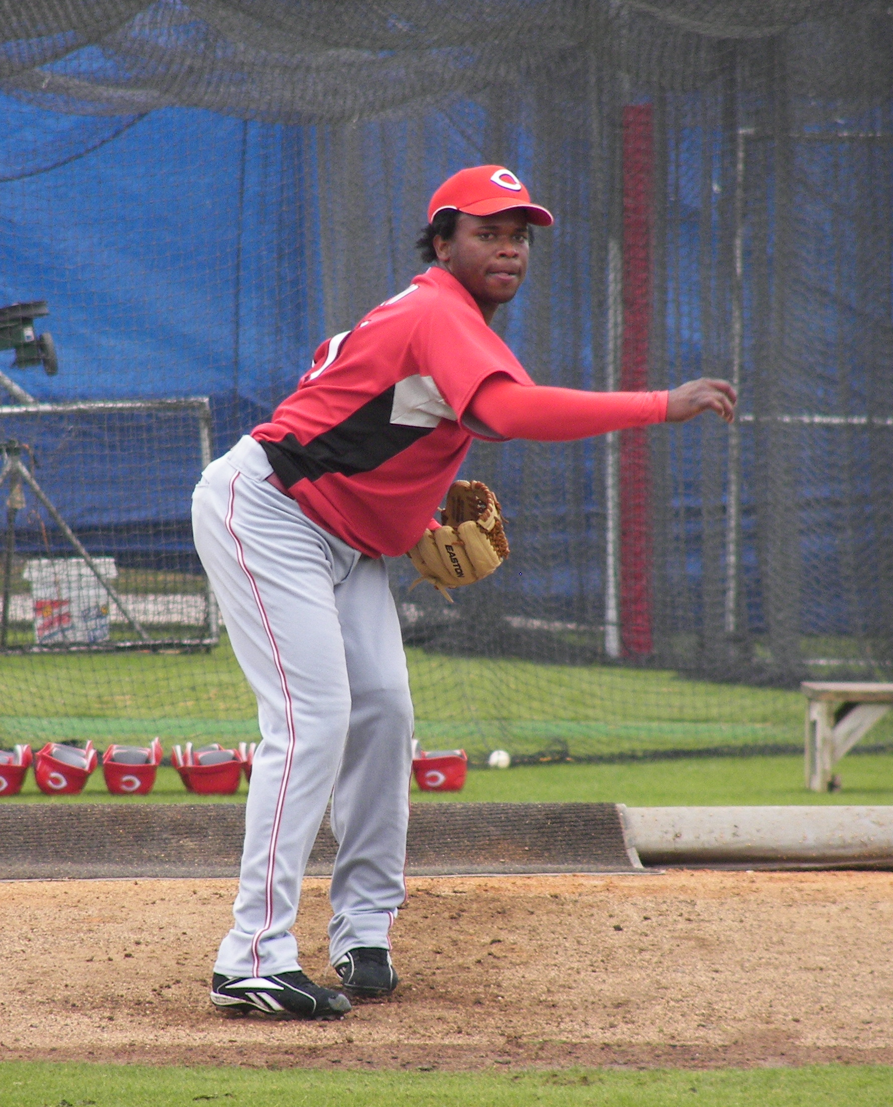 Cincinnati Reds pitcher Johnny Cueto during a Spring Training workout outside Ed Smith Stadium in Sarasota, Florida.